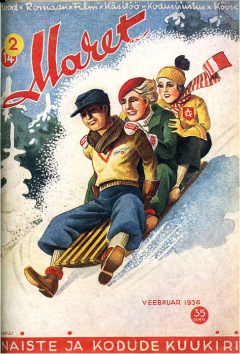 Front page from magazine Maret